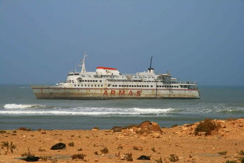 Ferry Assalama, beached on the Moroccan coast on April 30, 2008